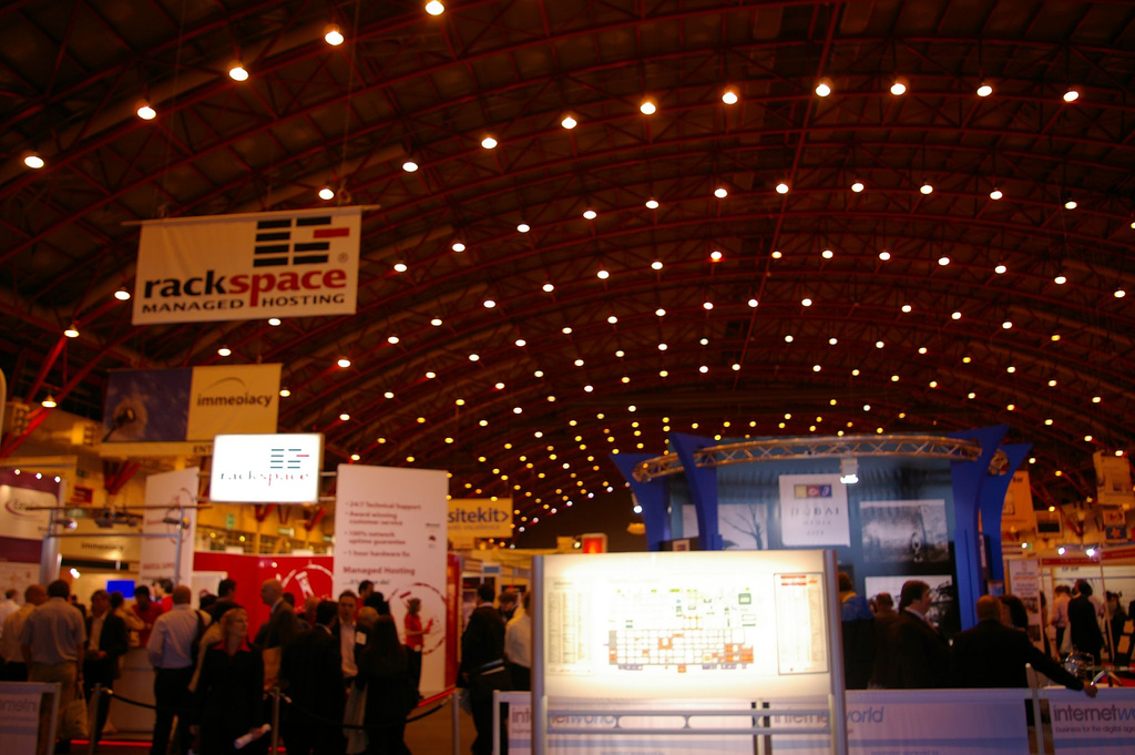 Earls Court 2